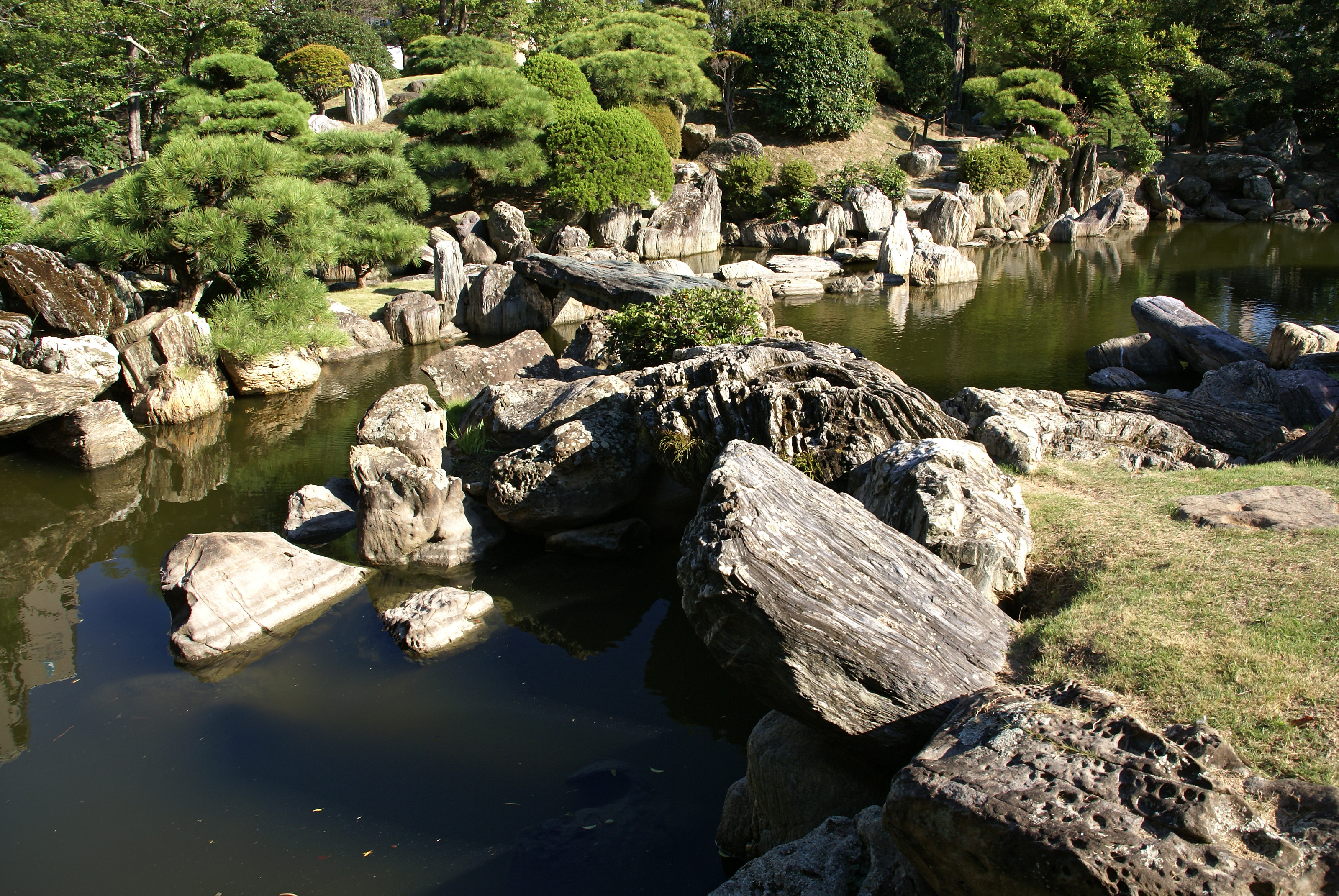 Tokushima Castle Lordly Front Palace Garden in Tokushima, Tokushima prefecture, Japan